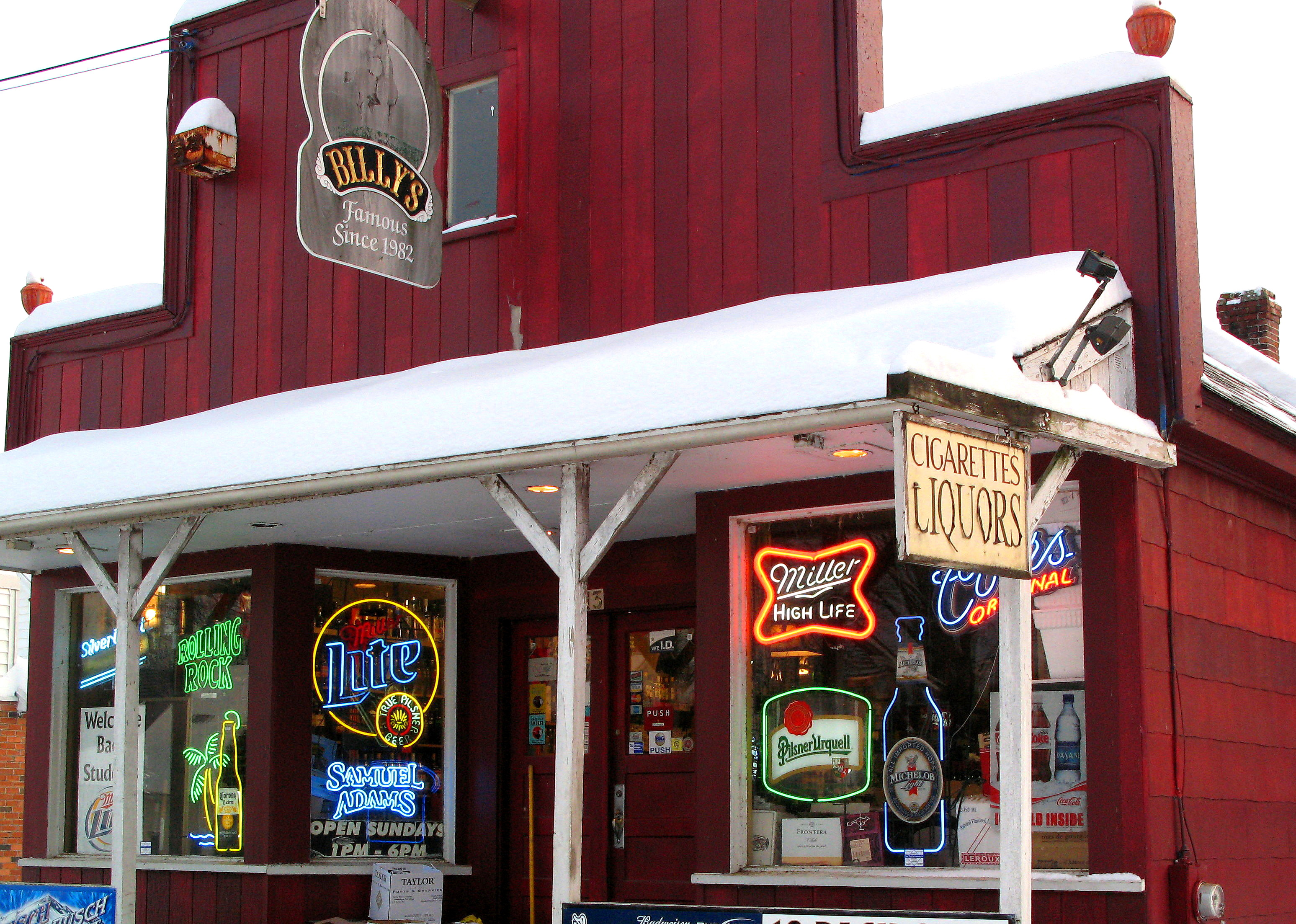 Billy's Beer & Wine, Bridge Street, Sunderland, MA 01375